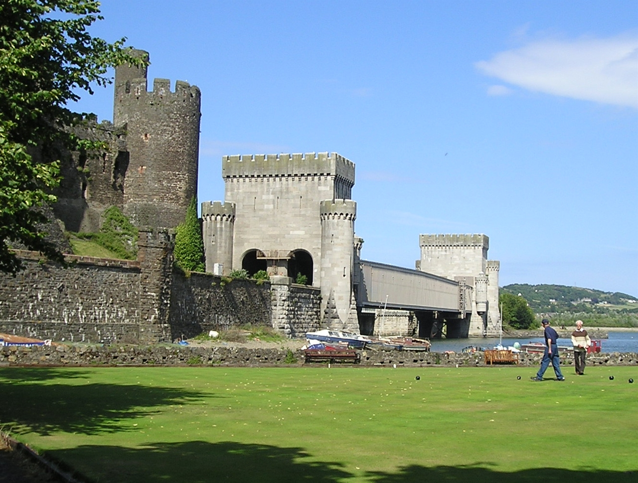 The Conwy Railway Bridge provides a backdrop to the Conwy bowling green.